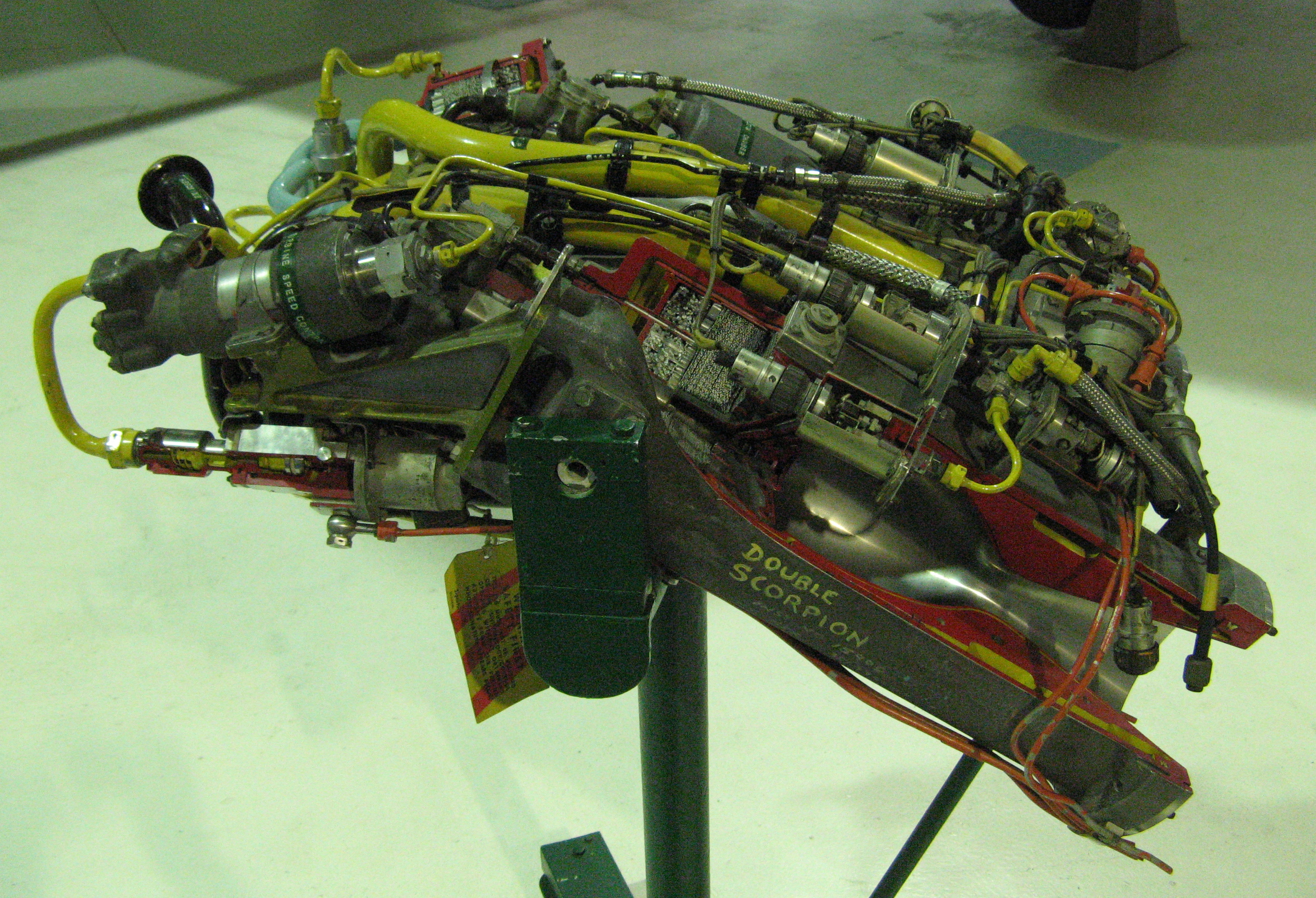 Napier N.Sc.D1-2 Double Scorpion on display at the RAF Museum London.